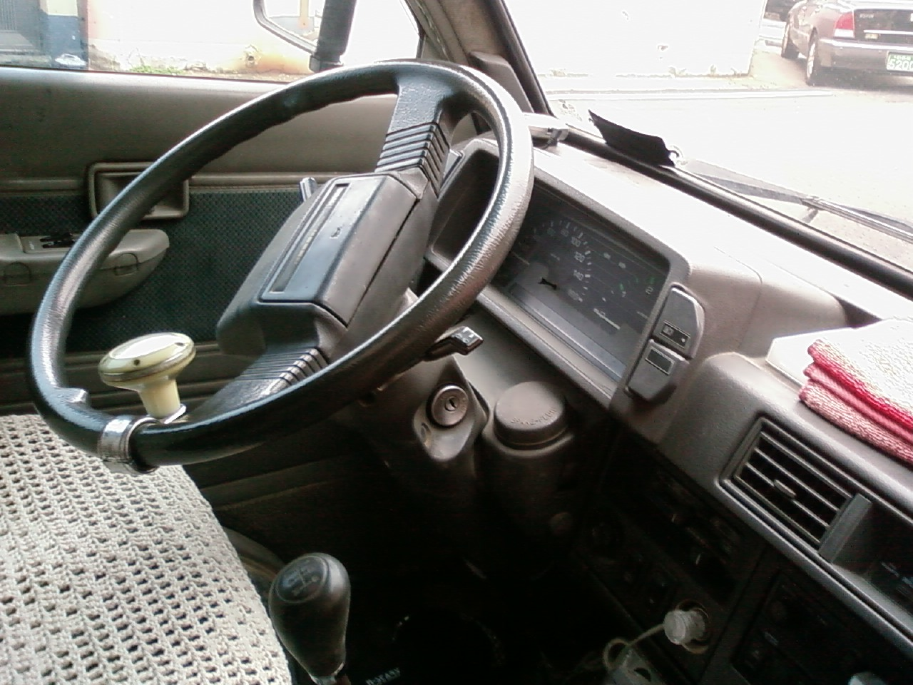 1992 Kia Motors Hi-BESTA Driver's Seat